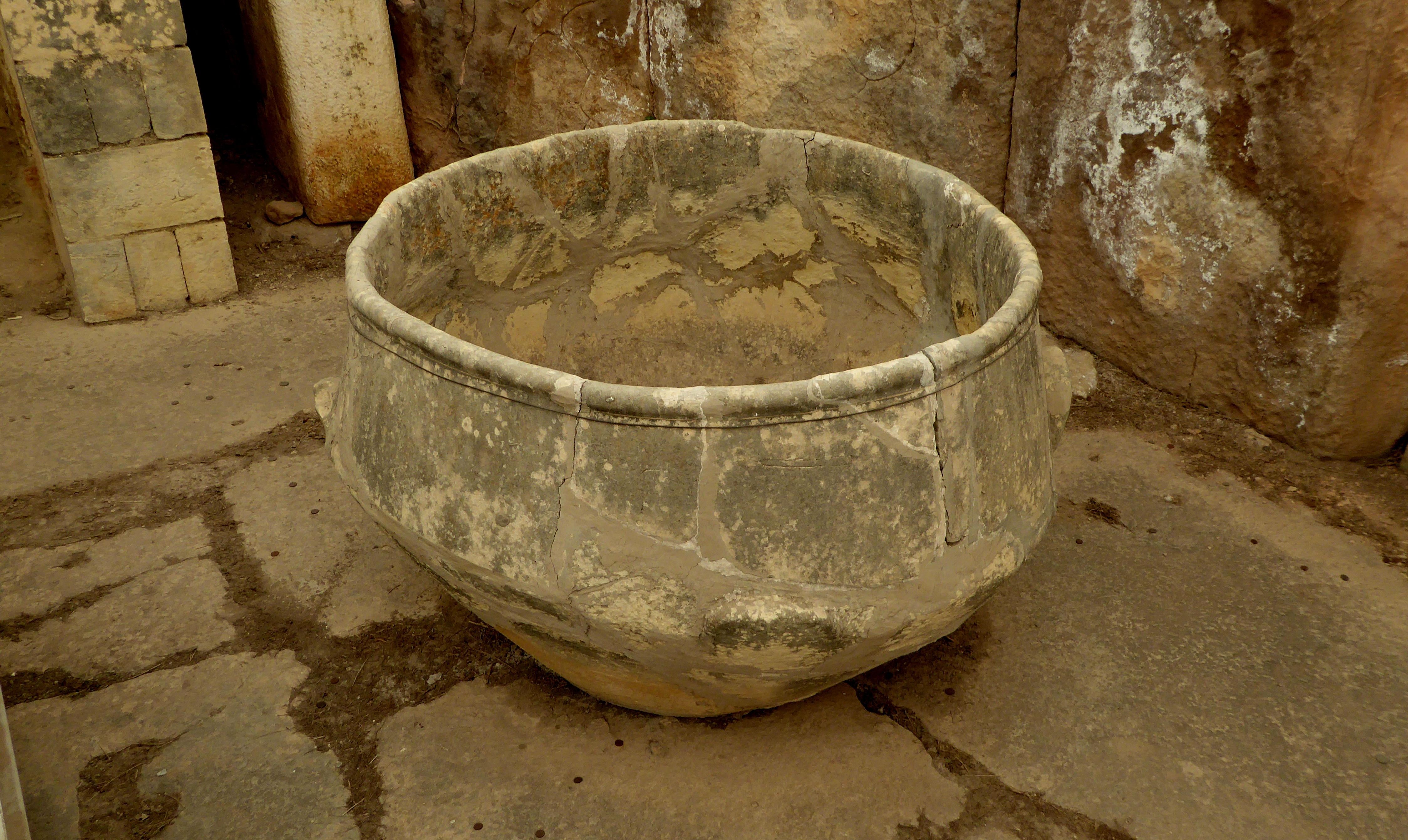 Large carinated bowl located in the western end of the southern apse of the Central Temple, one of the Tarxien Temples in Malta.